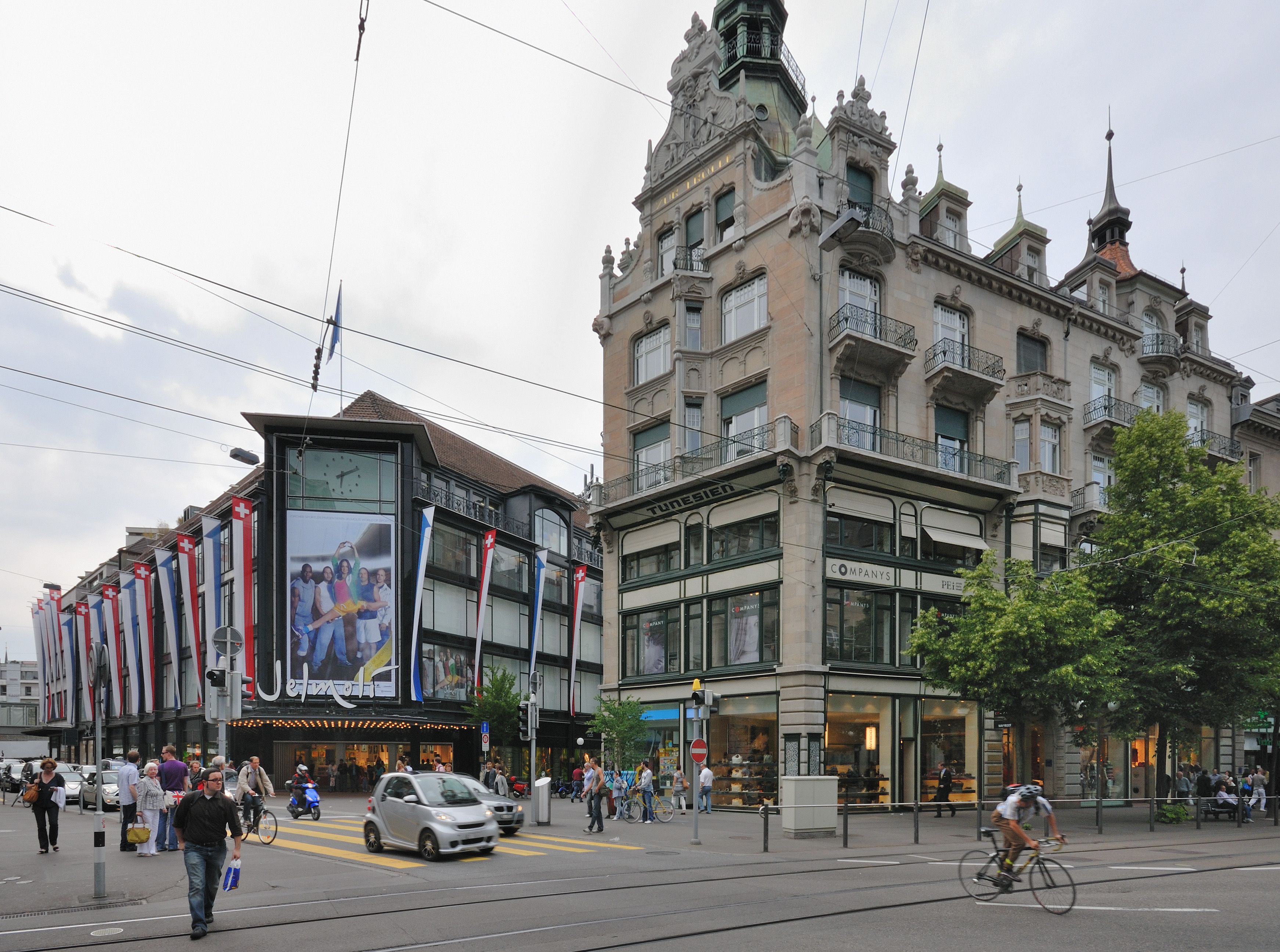 Crossing of Bahnhofstrasse (right) and Sihlstrasse (left) in Zürich. The prominent building in the right half is Bahnhofstr. 69. At the left there is department store Jelmoli.